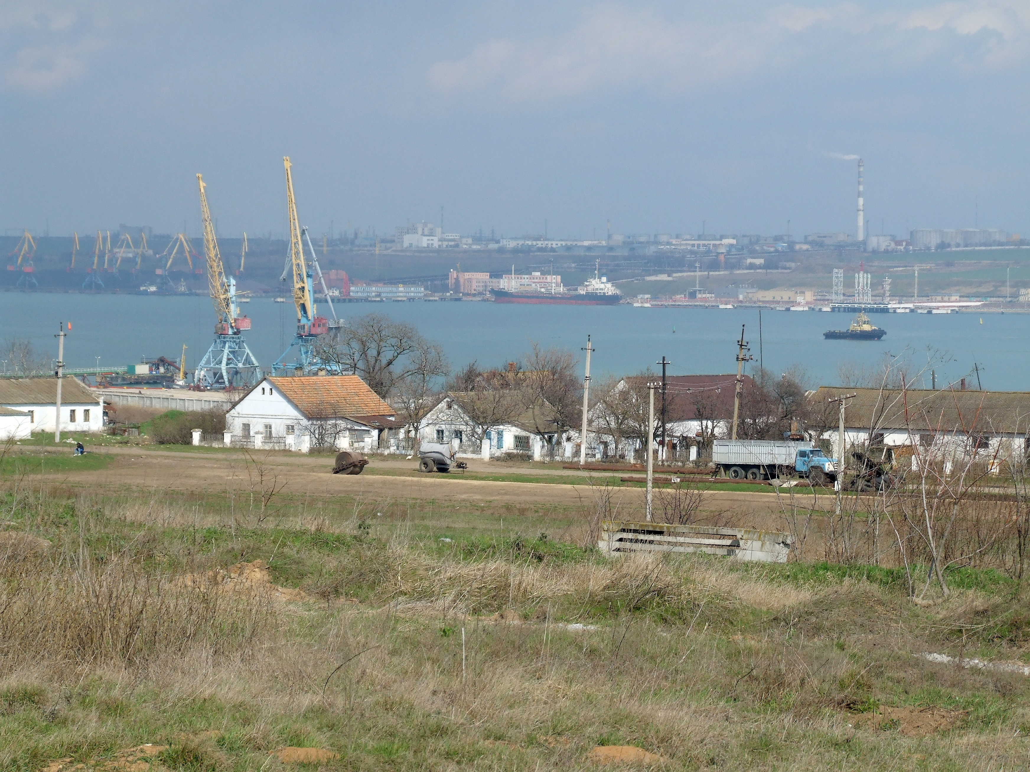 A view of Grygorivka, Kominternivskyi Raion, Odessa Oblast, Ukraine